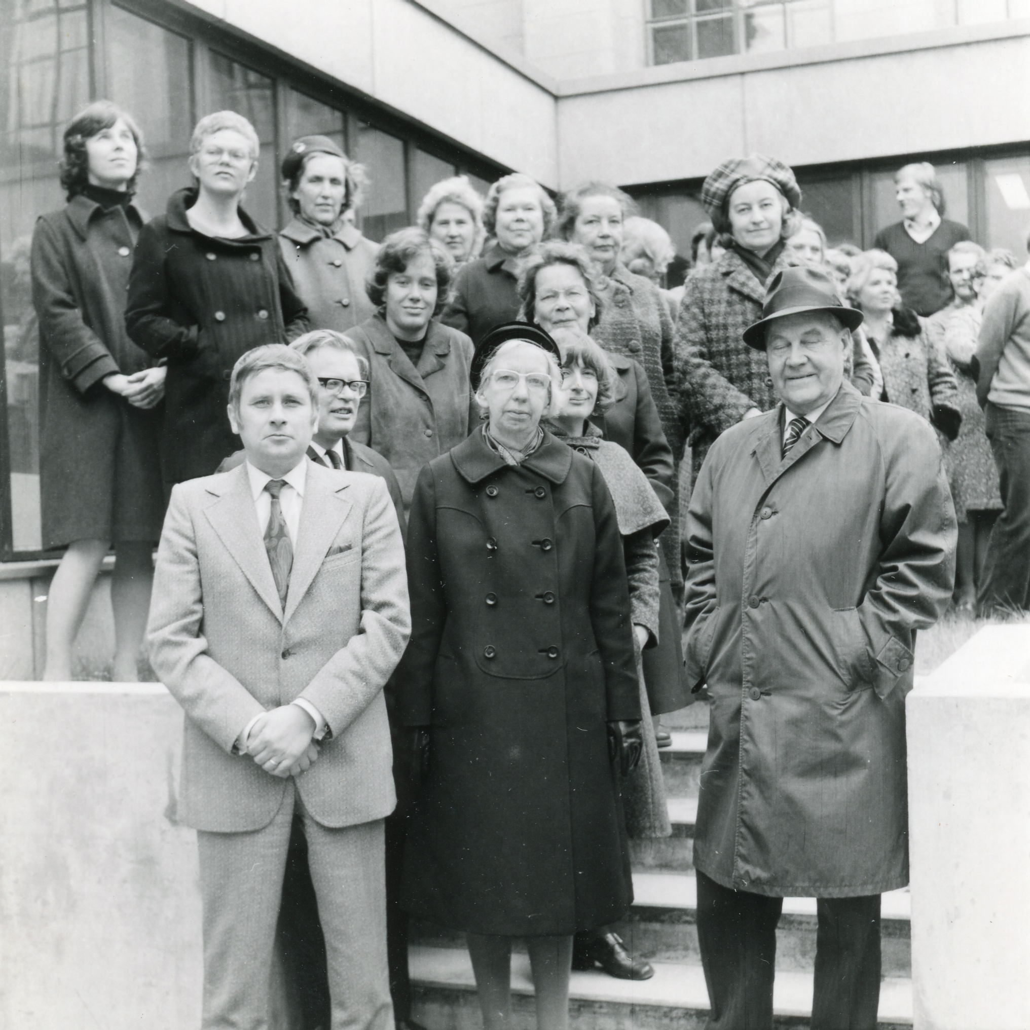 Staff in the autumn of 1972. Tuomo Polvinen on the left.